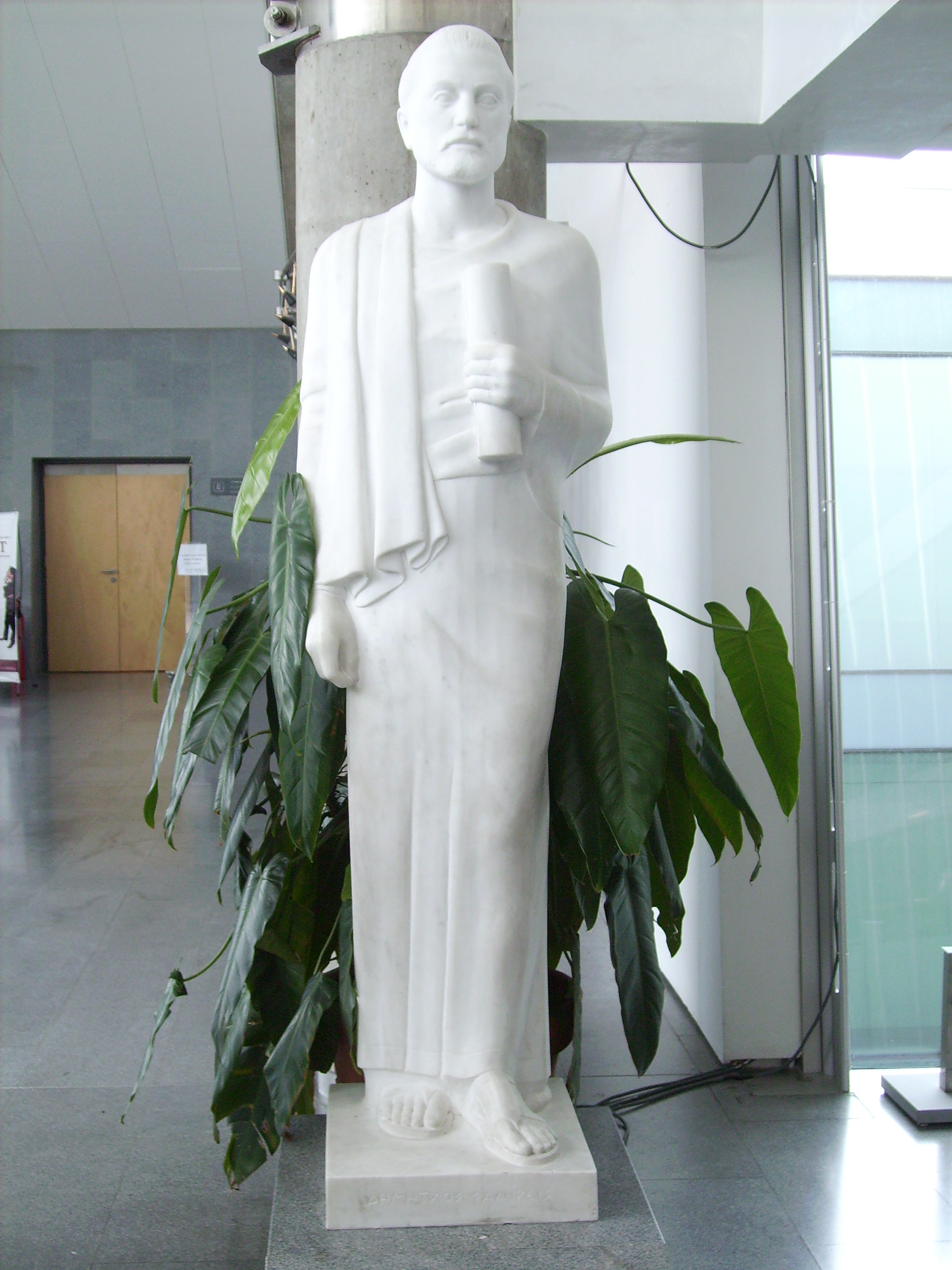 statue of Demetrios Phalereos inside the Bibliotheca Alexandrina in Alexandria